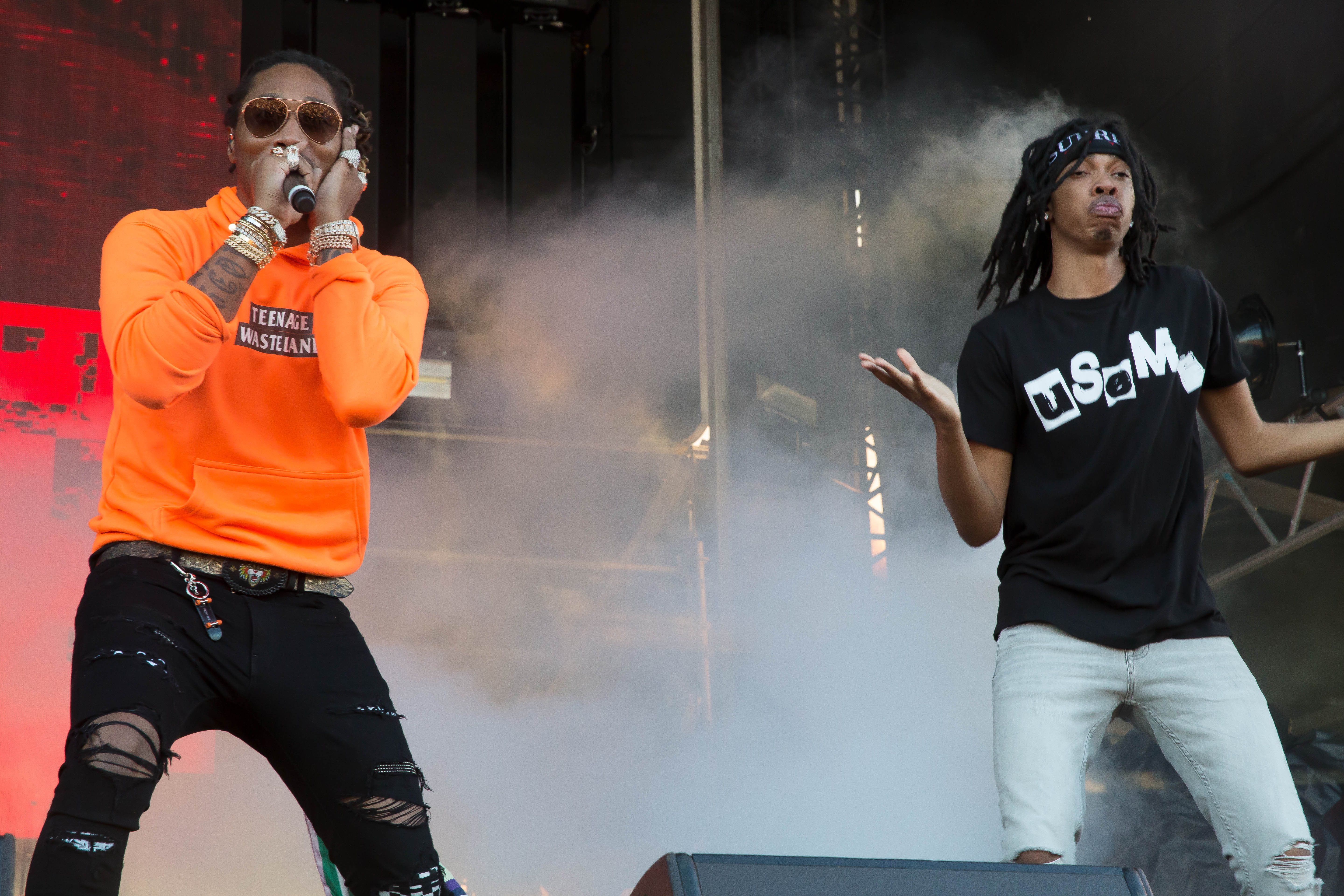 Future performing at Sydney City Limits 2018